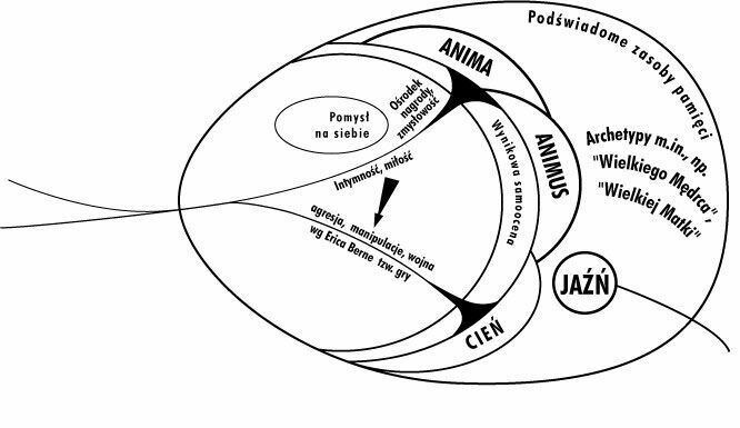 Graphical model of Carl Jung's theory.